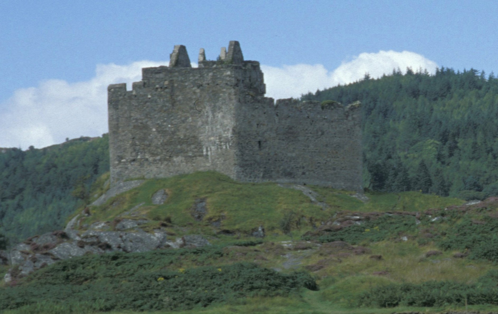 Castle Tioram, Scotland